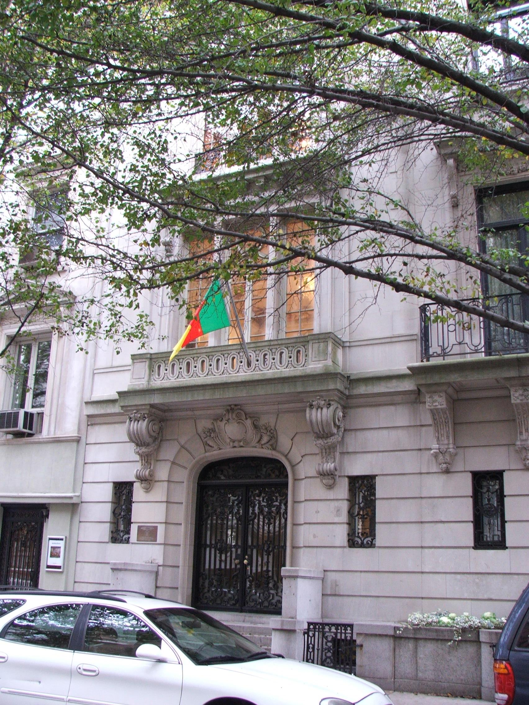 22 East 73rd Street, Pernament Mission of Cameroon to the UN in New York City.